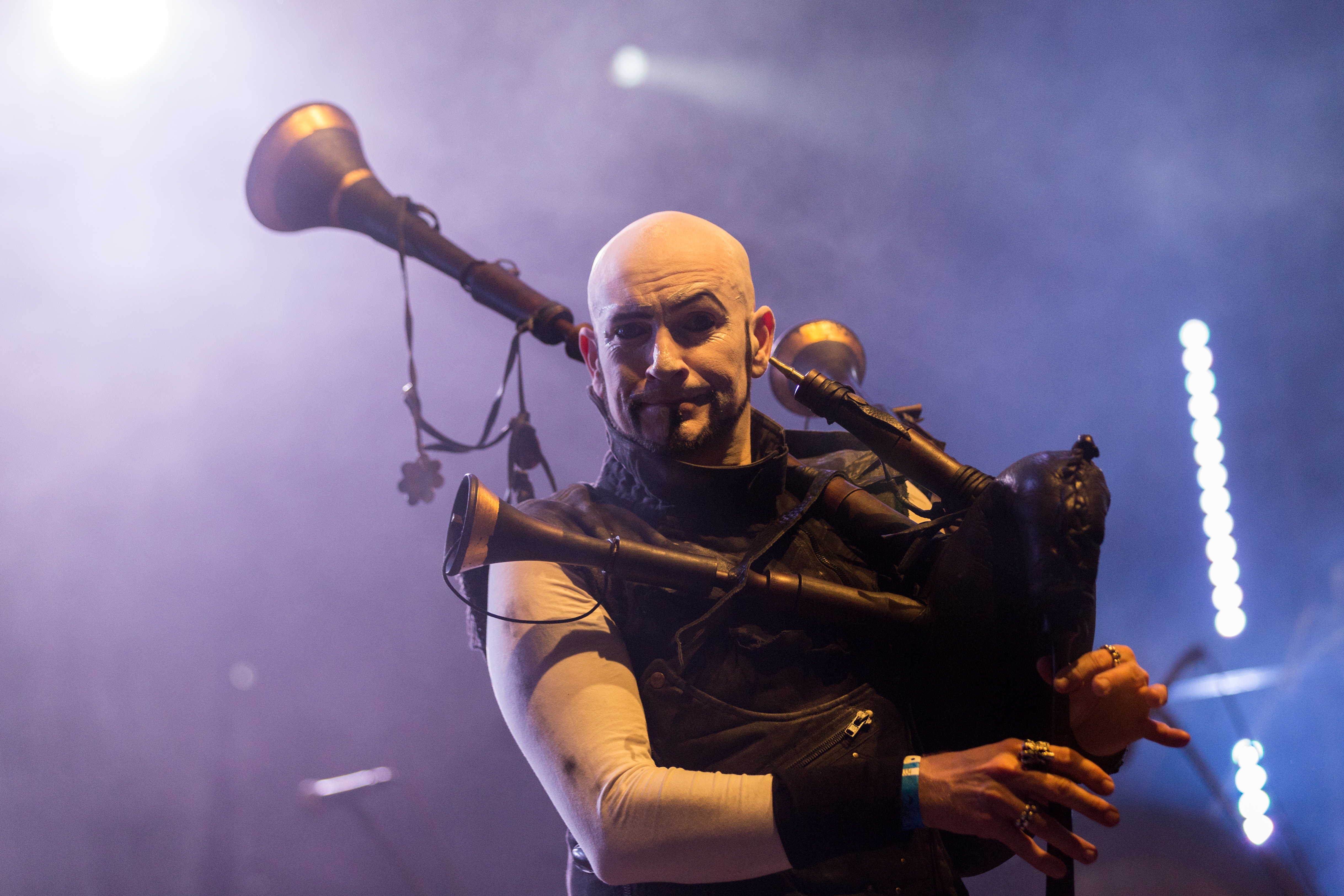 The German medieval rock band Tanzwut at the Wave-Gotik-Treffen 2017 in Leipzig/Germany (Venue Heathen village).